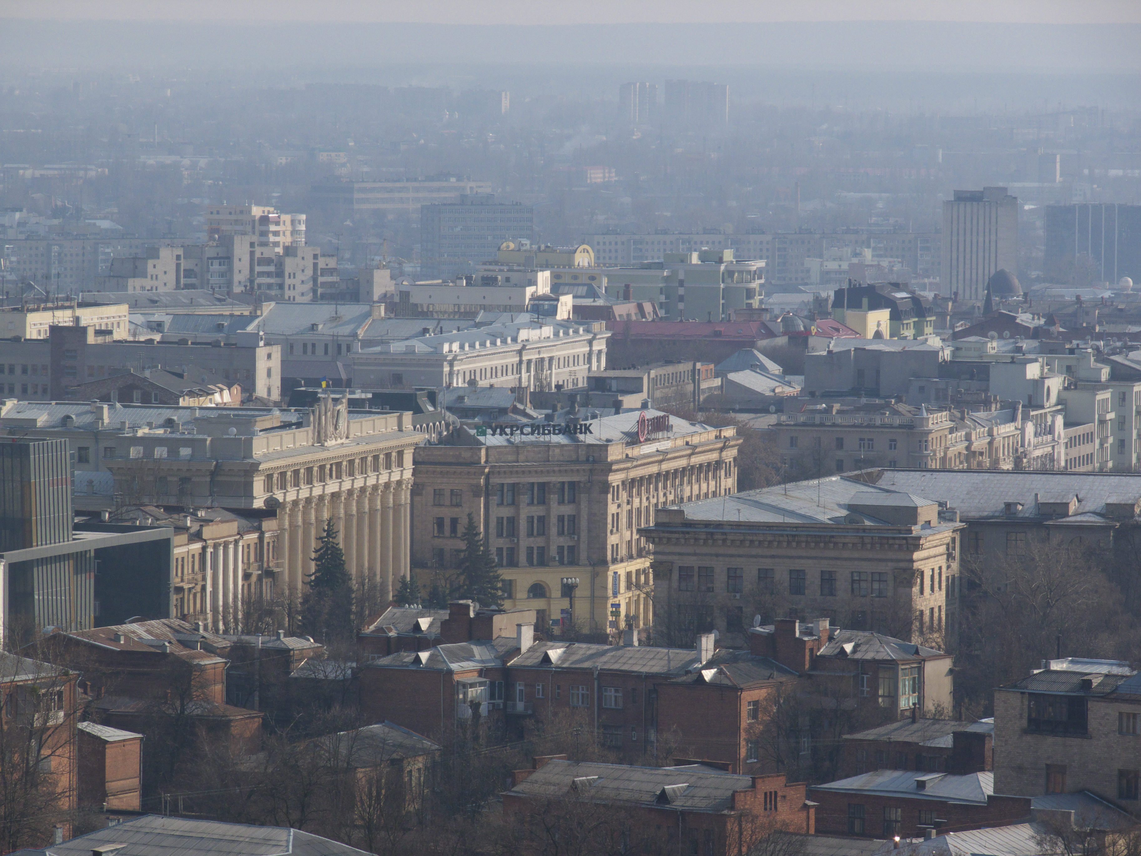 Kharkov Oblsovet and Sumskaya Street in Kharkov.